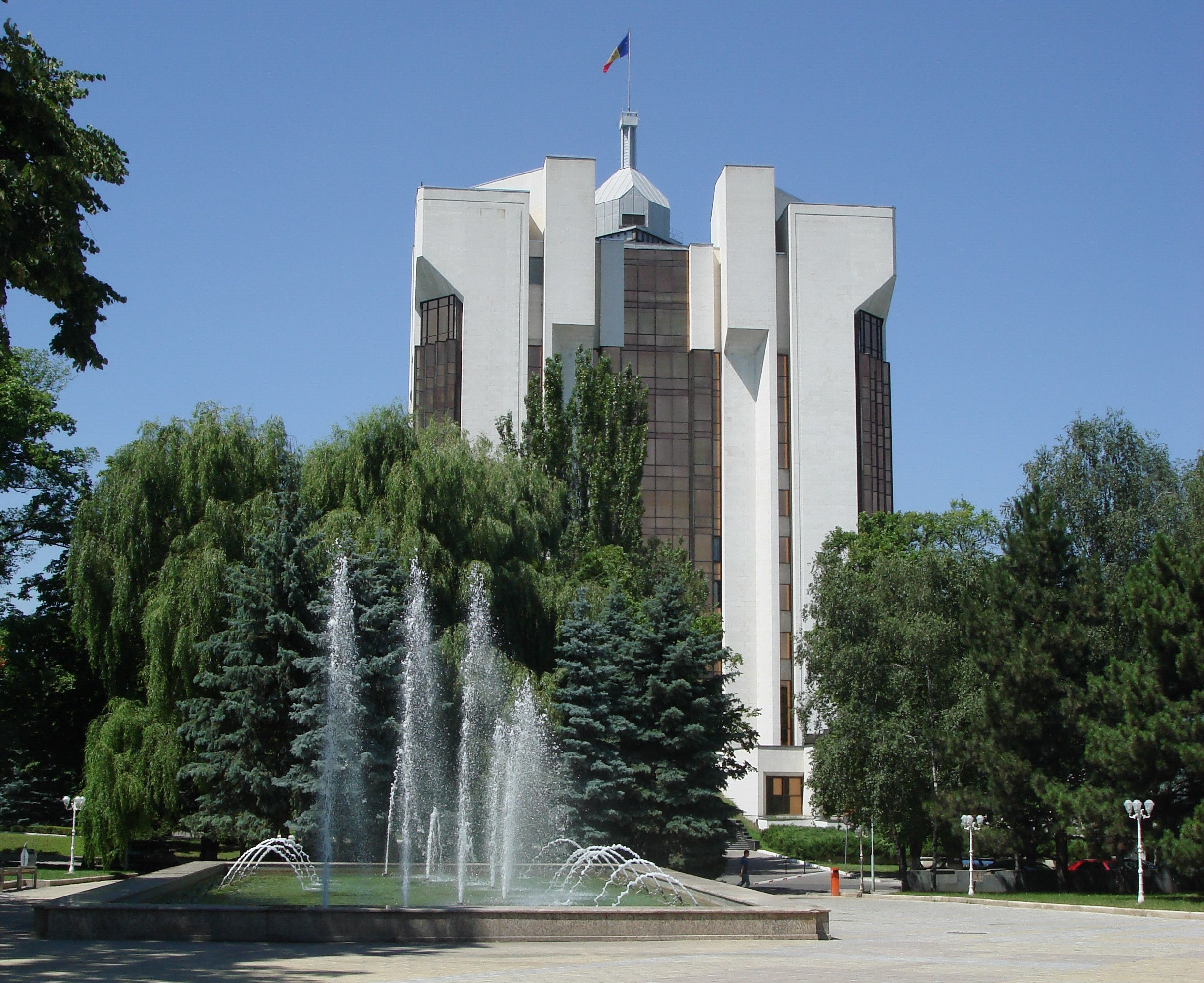 Presidential palace in Chisinau, Moldova